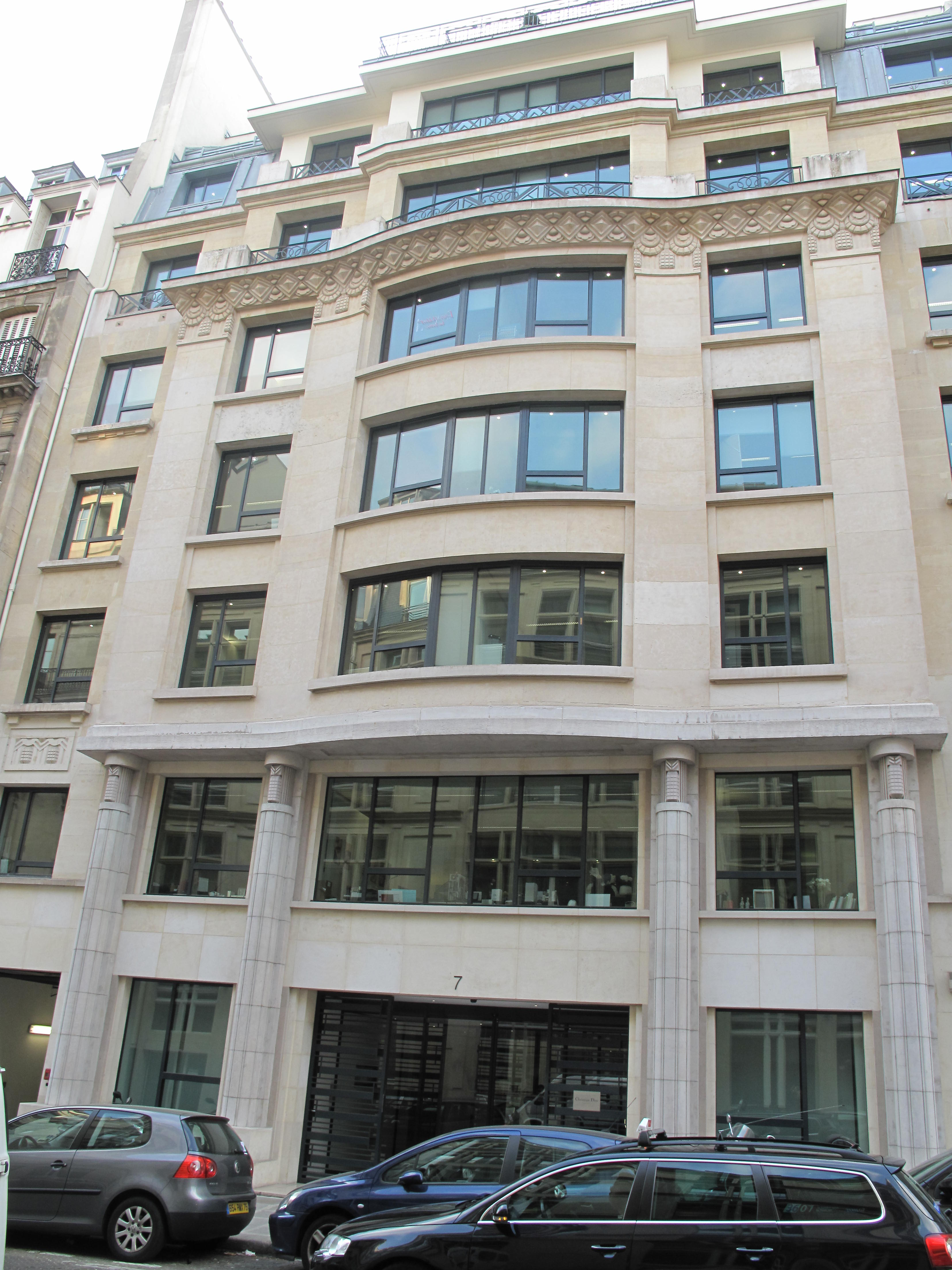 Building at the 7 rue de Téhéran, former HQ of Danone : Paris 8th arr.